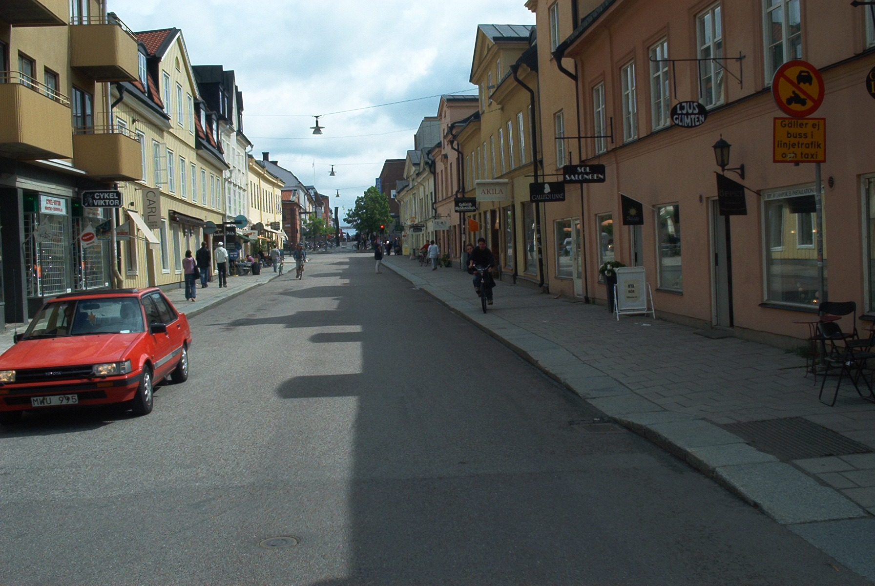 Svartbäcksgatan, a street in Uppsala. This part of the street retains the old small town character of Uppsala.